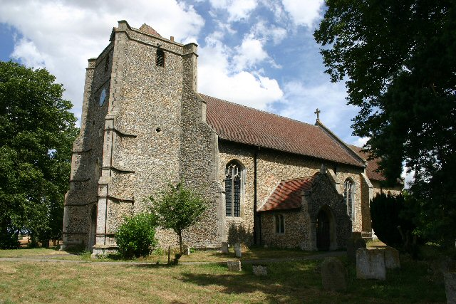 St Peter's parish church, Hepworth, Suffolk, seen from the southwest